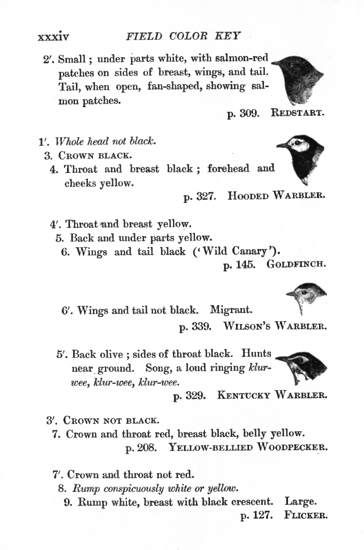 Page from Birds of Village and Field